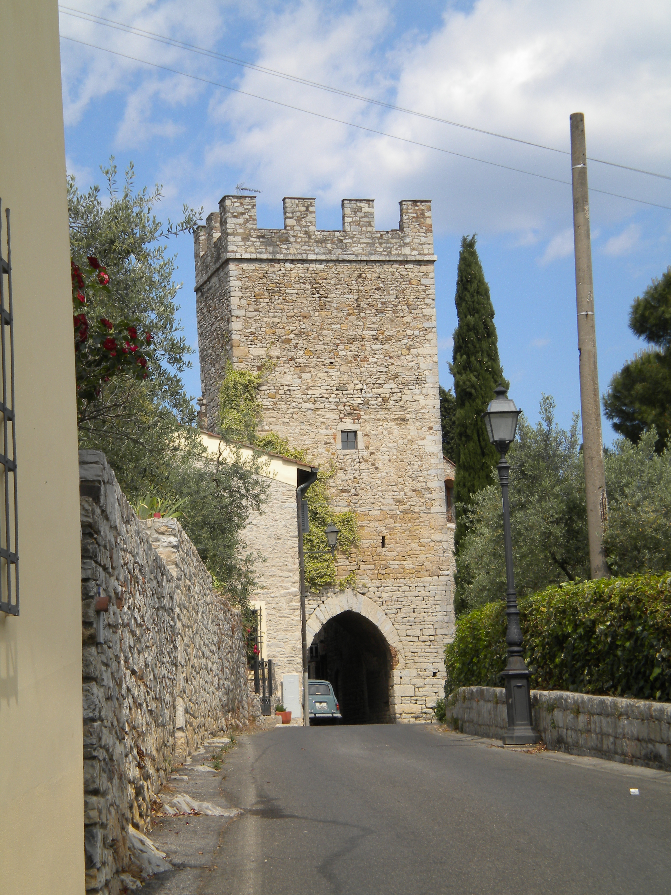 tower